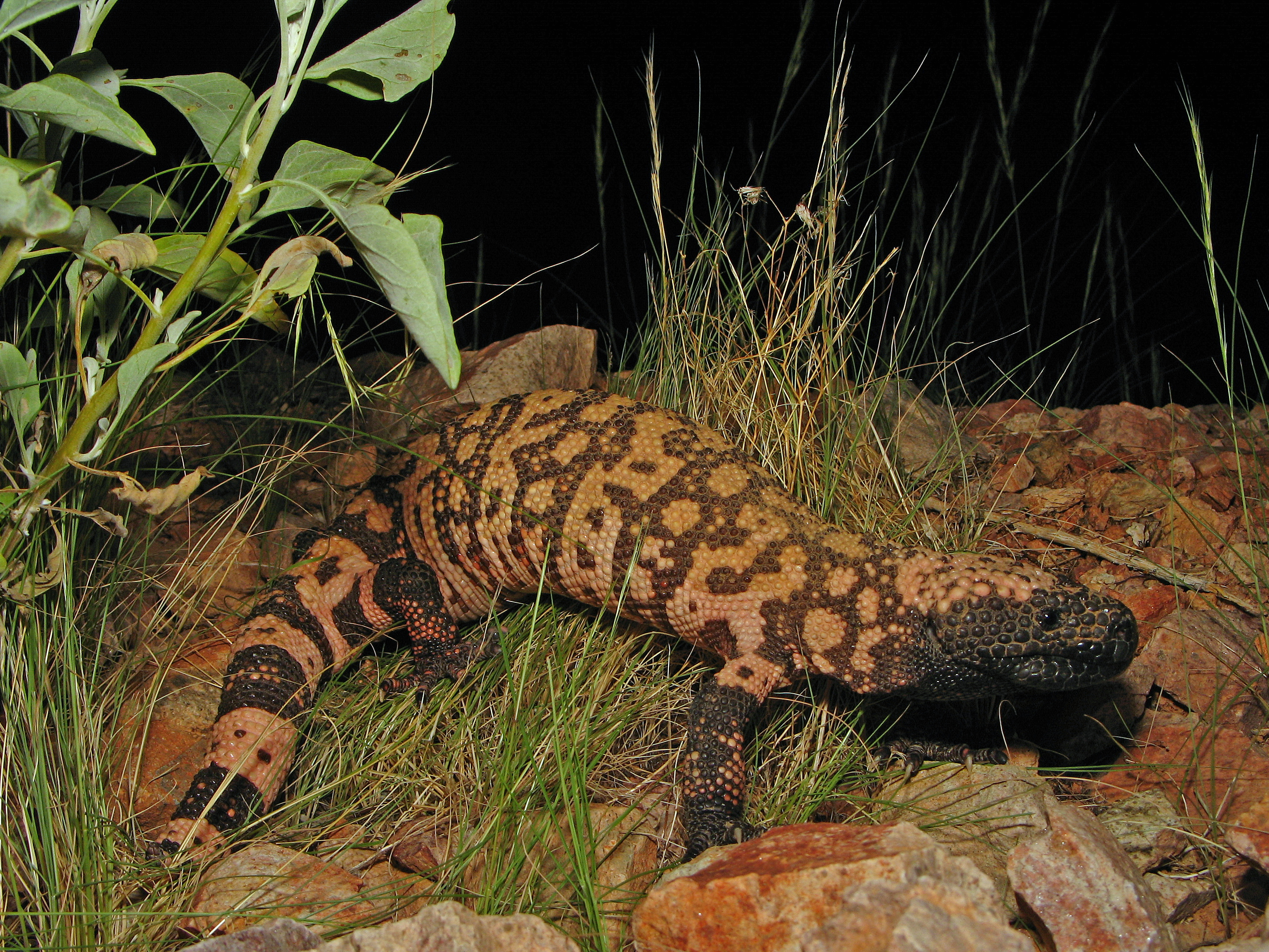 A Reticulate Gila Monster (Heloderma suspectum suspectum).